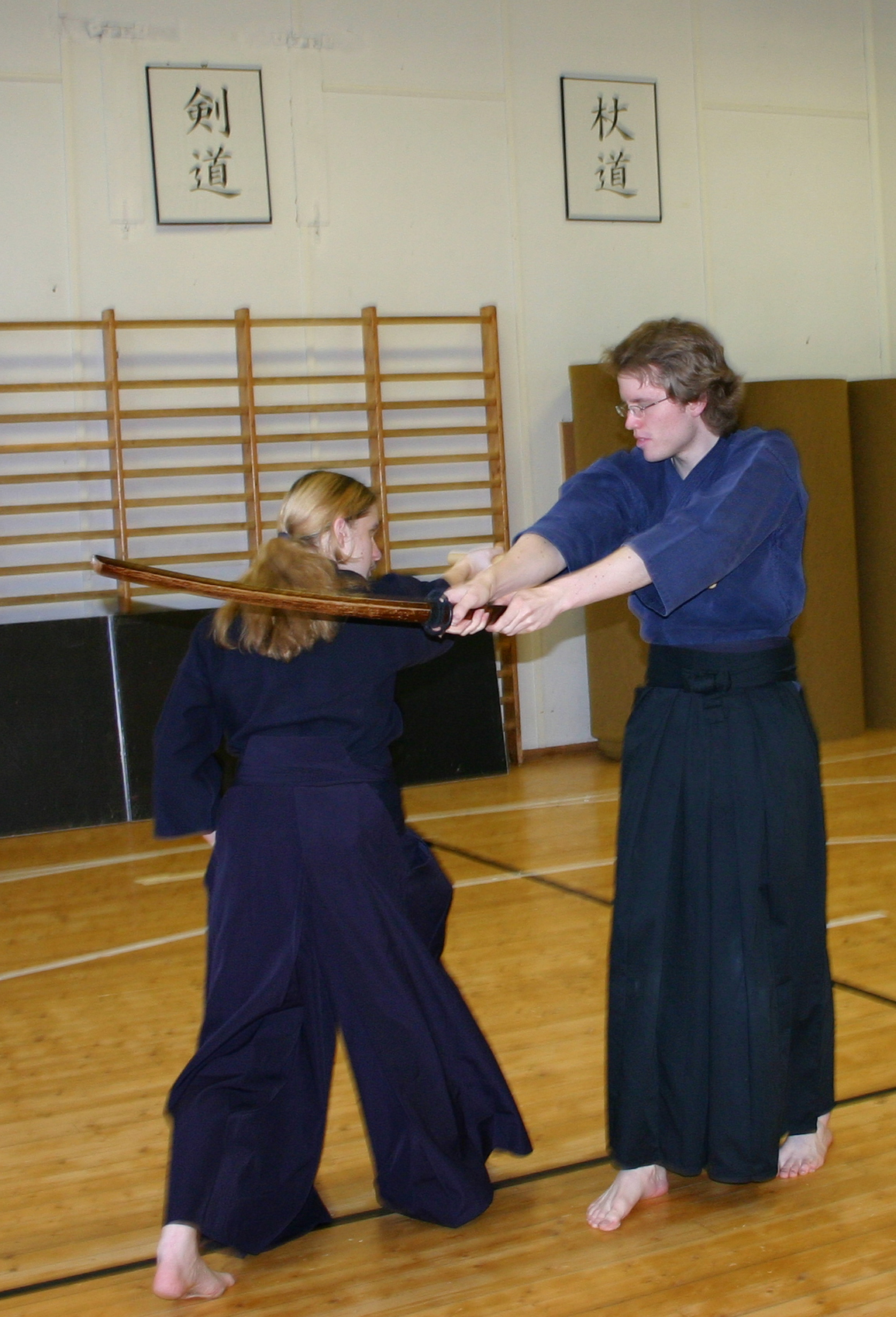 Uchida-ryū tanjōjutsu_technique